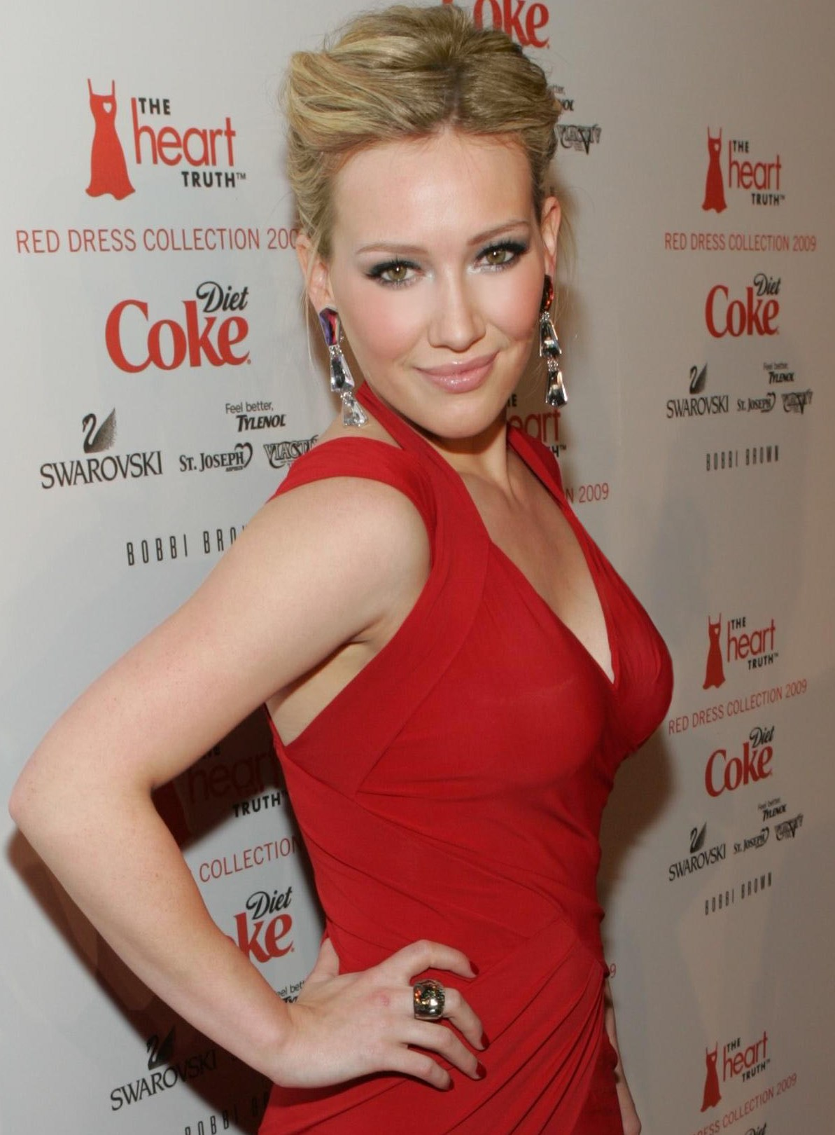 Hilary Duff backstage at The Heart's Truth Red Dress Collection Fashion Show in 2009